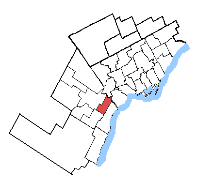 Map of the Mississauga East—Cooksville electoral district. Based on Earl Andrew's maps, created by SimonP.